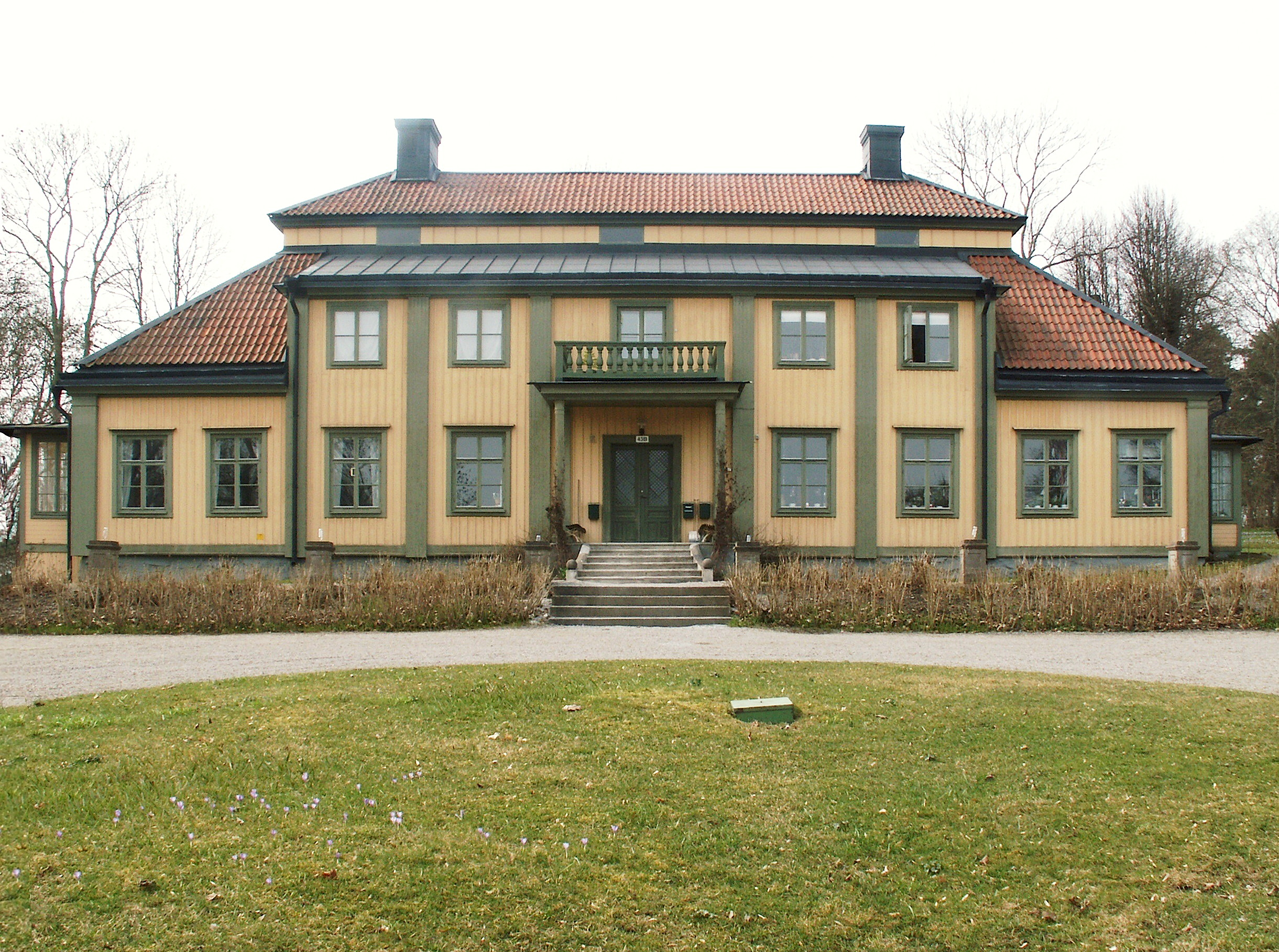 The Langbro estate in the southern part of Stockholm, Sweden